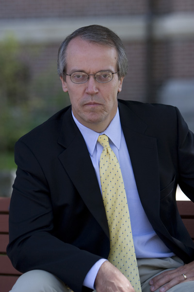 Photo of author Kevin R. C. Gutzman by Kevin R. C. Gutzman. Dr. Gutzman e-mailed me and requested me to upload this picture of him for use in a Wikipedia article. Questions? Contact K. R. C. Gutzman at .